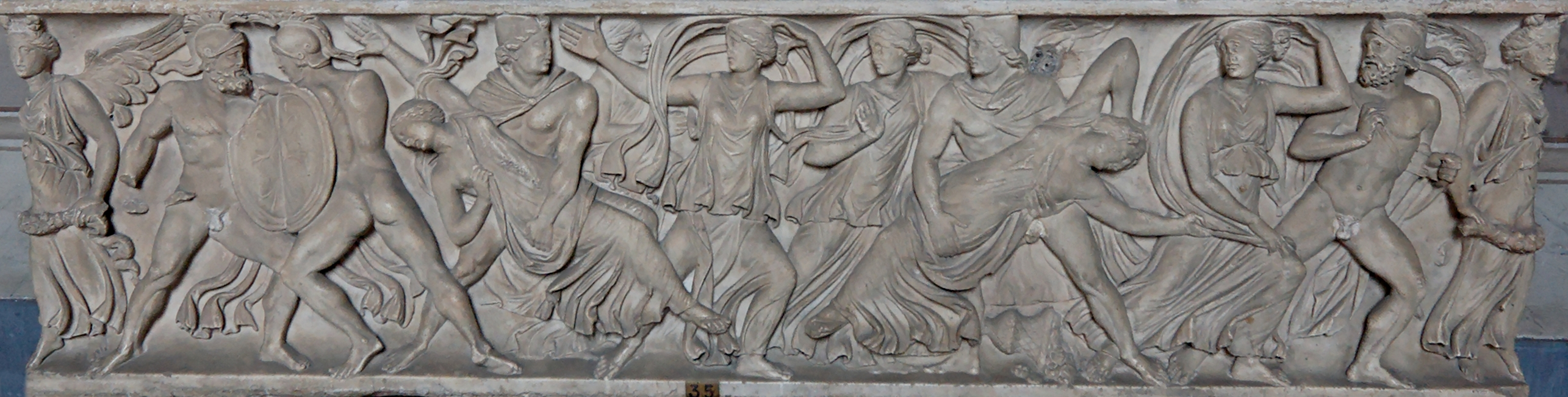 Castor and Pollux raping Phoebe and Hilaeira, daughters of Leucippus. Marble, front panel from a Roman sarcophagus, ca. 160 CE.